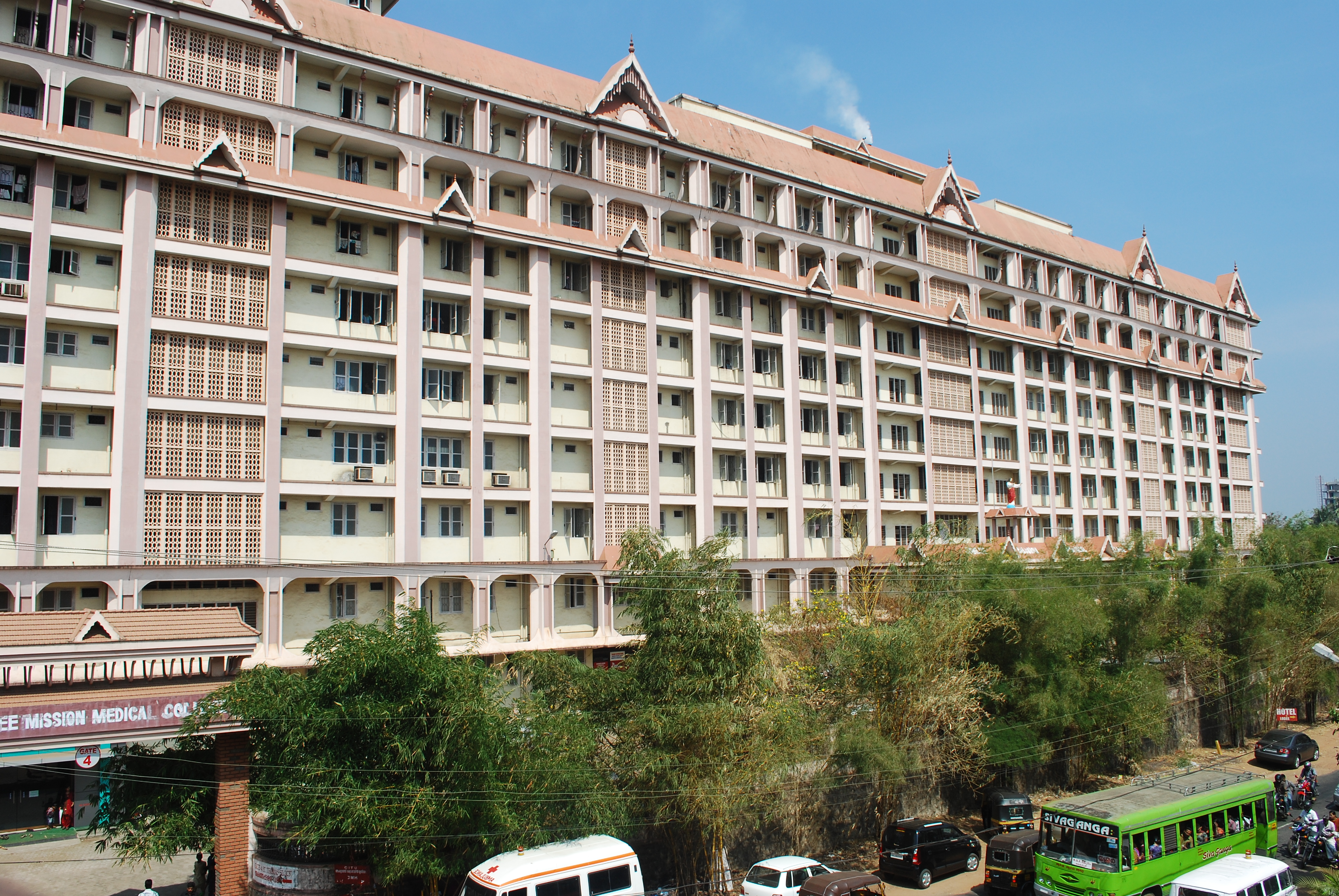 St Thomas block, in front of Jubily Mission Medical College Hospital, Thrissur